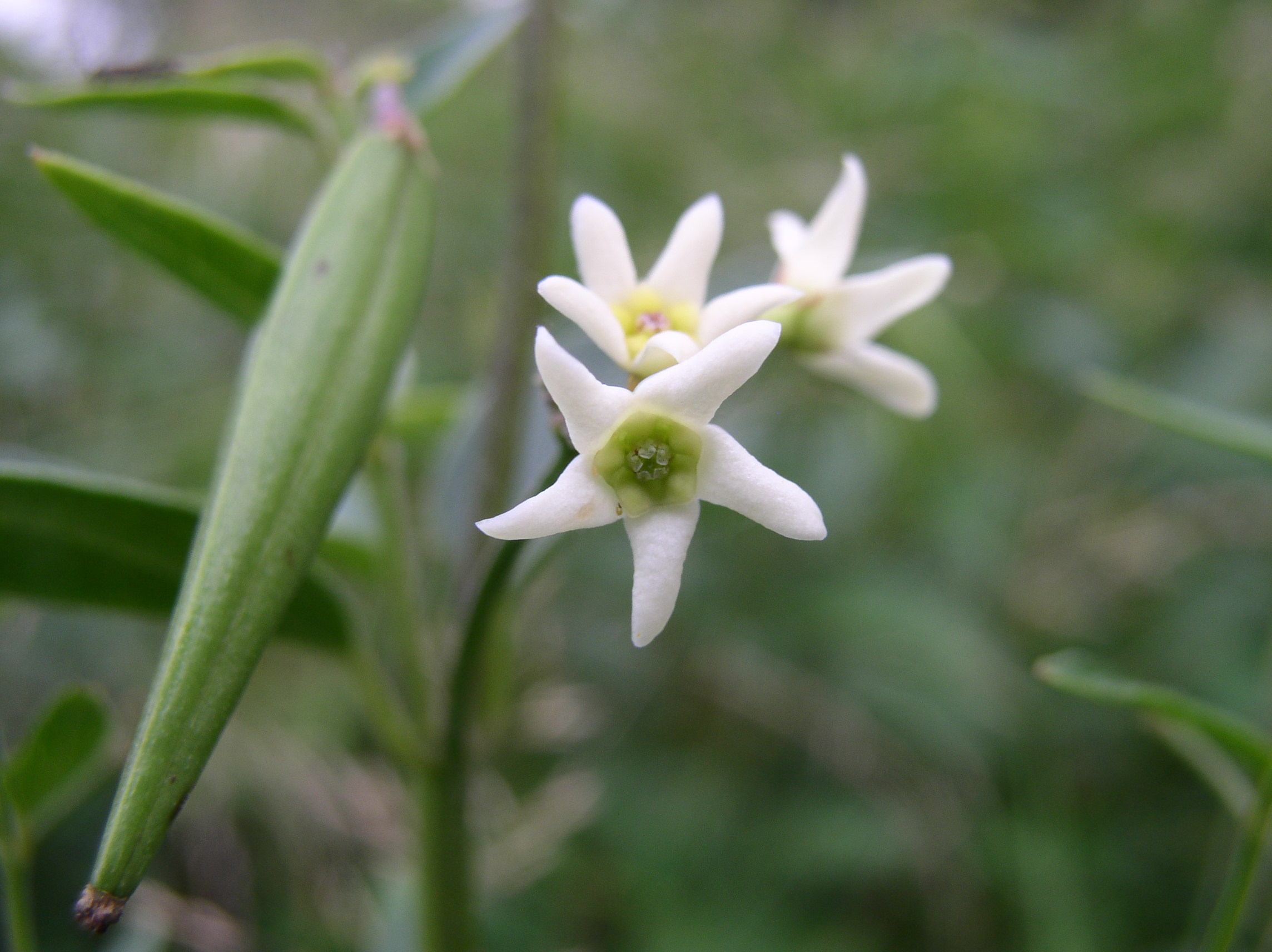 Vincetoxicum hirundinaria flowers in Turku, Finland.